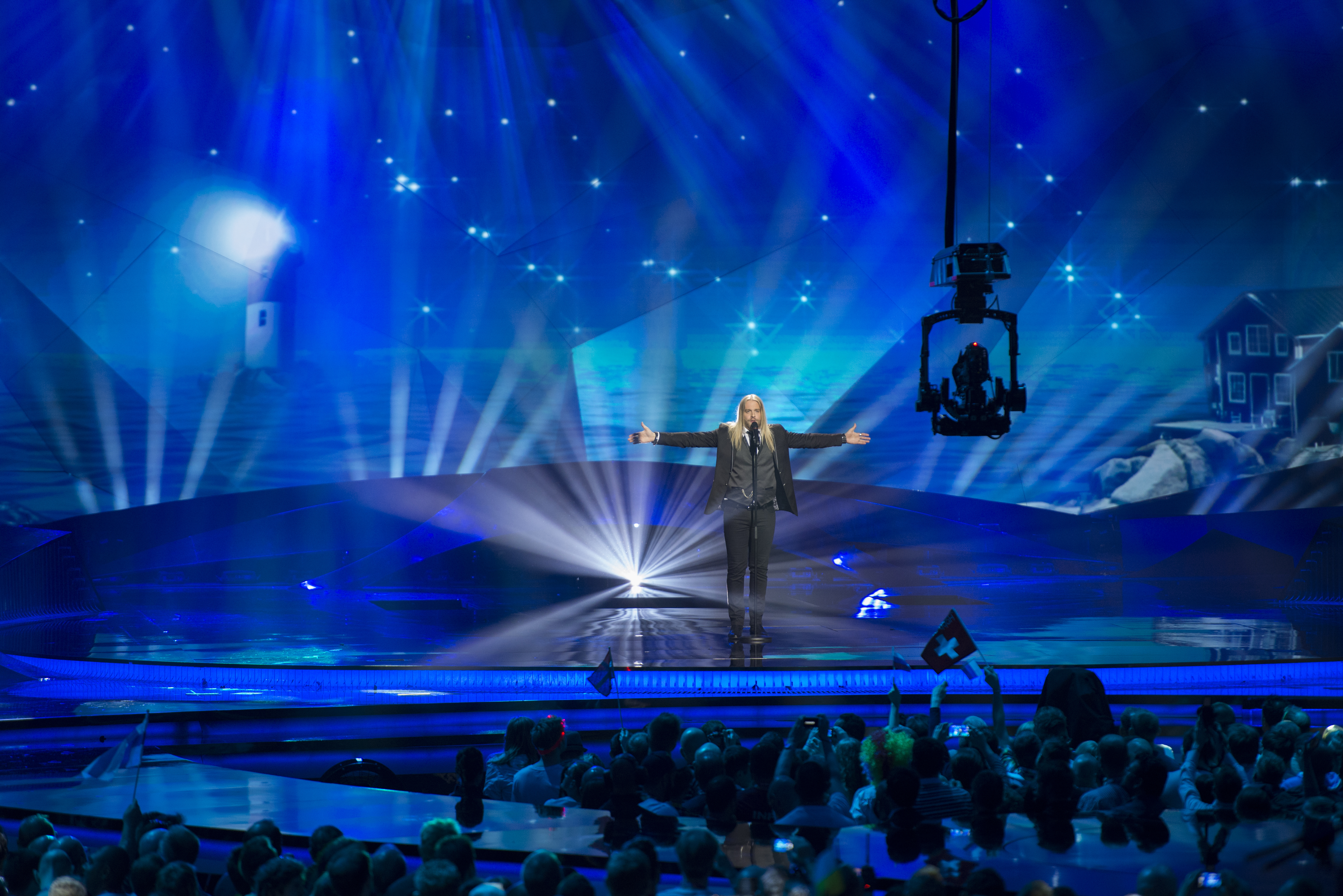 Eythor Ingi representing Iceland with the song "Ég á líf" during the second dress rehearsal of the second semi final of the Eurovision Song Contest 2013 in Malmö. (Help translate this text)